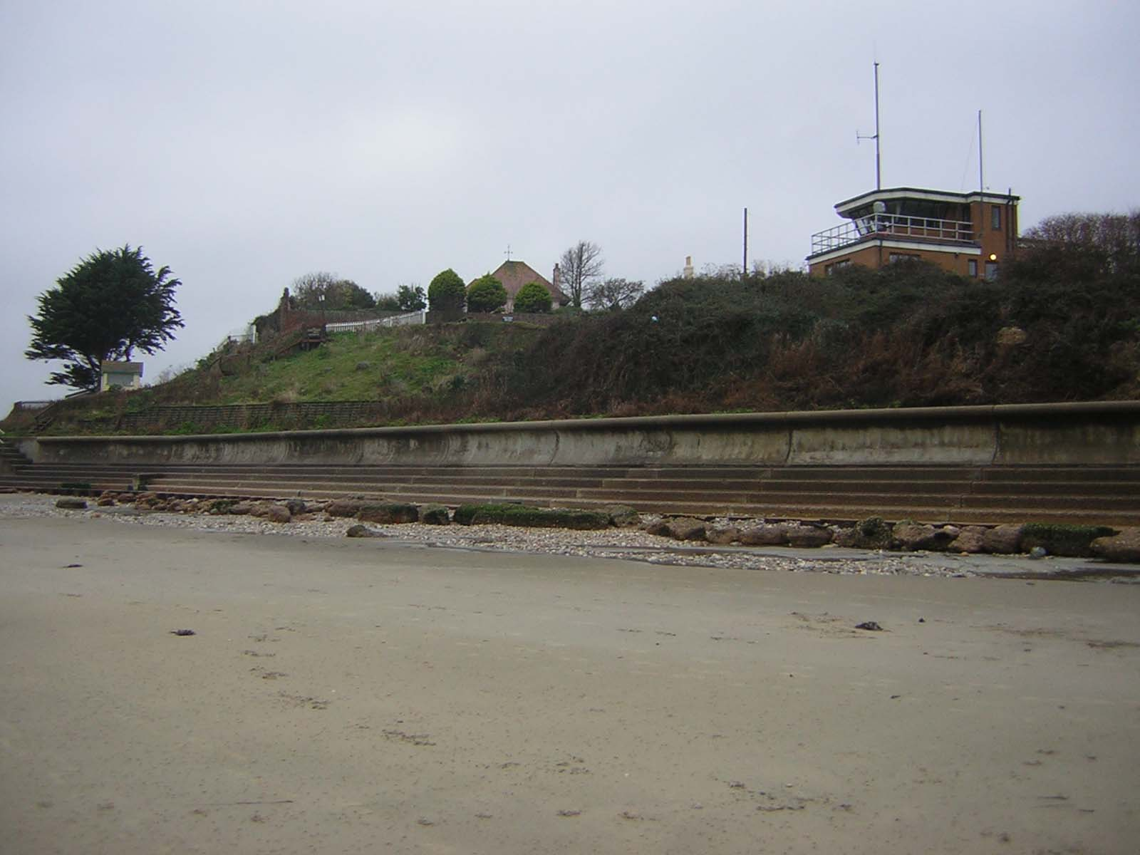 Isle of Wight Centre for the Coastal Environment